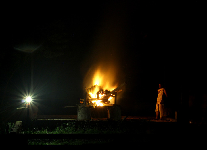 Cremation is the process of reducing dead bodies to basic chemical compounds in the form of gases and bone fragments. This is accomplished through burning—high temperatures, vaporization and oxidation.